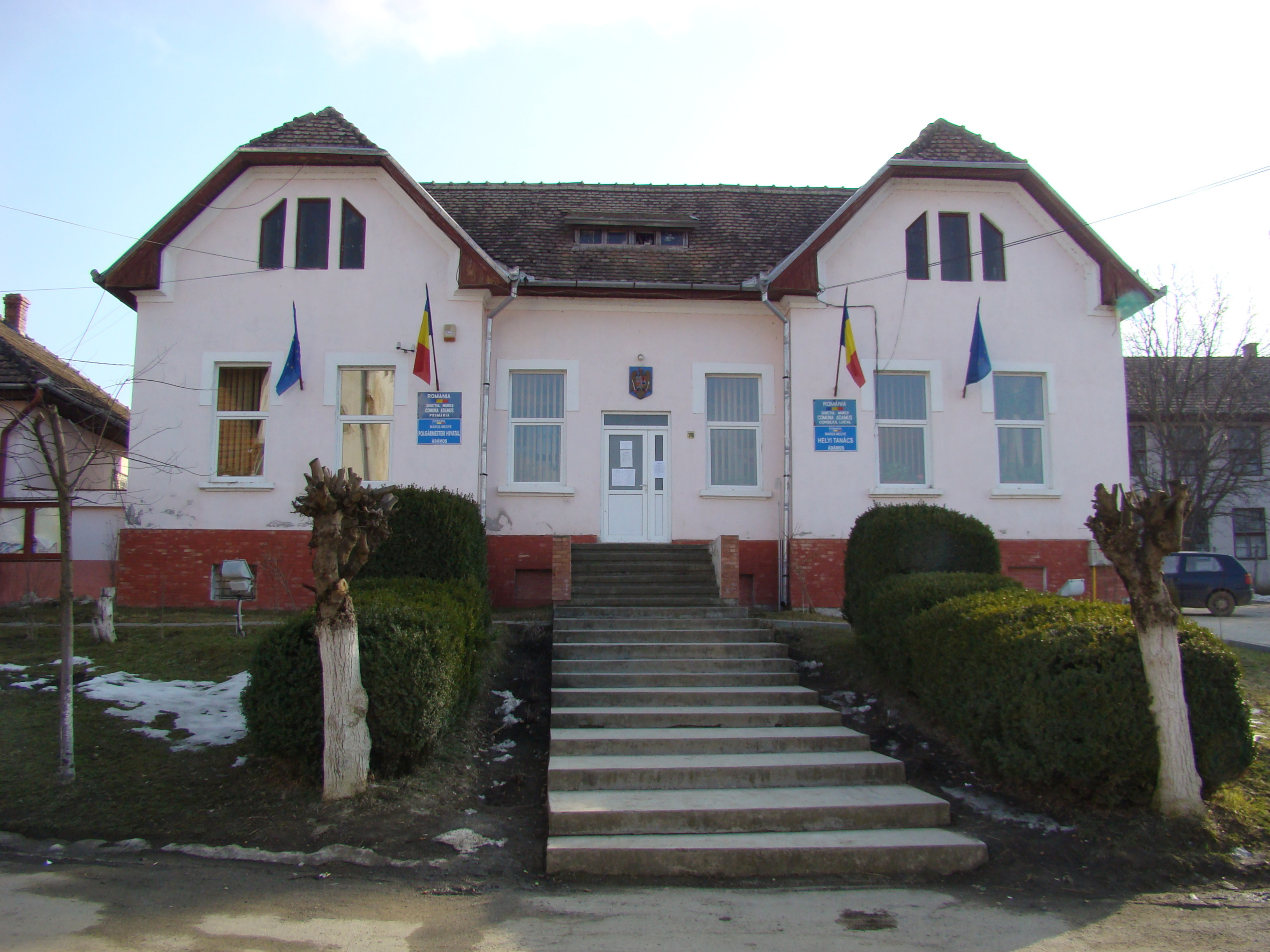 Adămuş, Mureş county, Romania